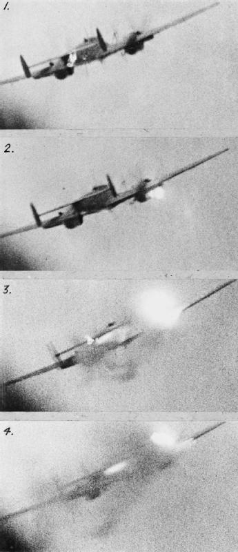 Royal Air Force 1939-1945- Fighter Command Luftwaffe night-fighter ace Helmut Vinke made the fatal mistake of flying in daylight on 26 February 1943. His Messerschmitt Bf 110G was caught at 1,000ft near Dunkirk by two Typhoons of No 198 Squadron and blasted out of the sky. This gun sequence, taken from Flying Officer George Hardy's aircraft, shows the Messerschmitt's starboard engine exploding, shortly before it dived to its destruction in the English Channel.